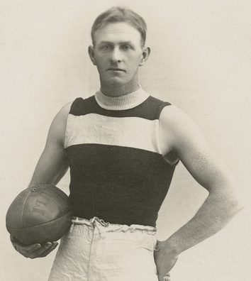 Section of 1920 portrait of Jack Tredrea, South Adelaide Football Club captain.